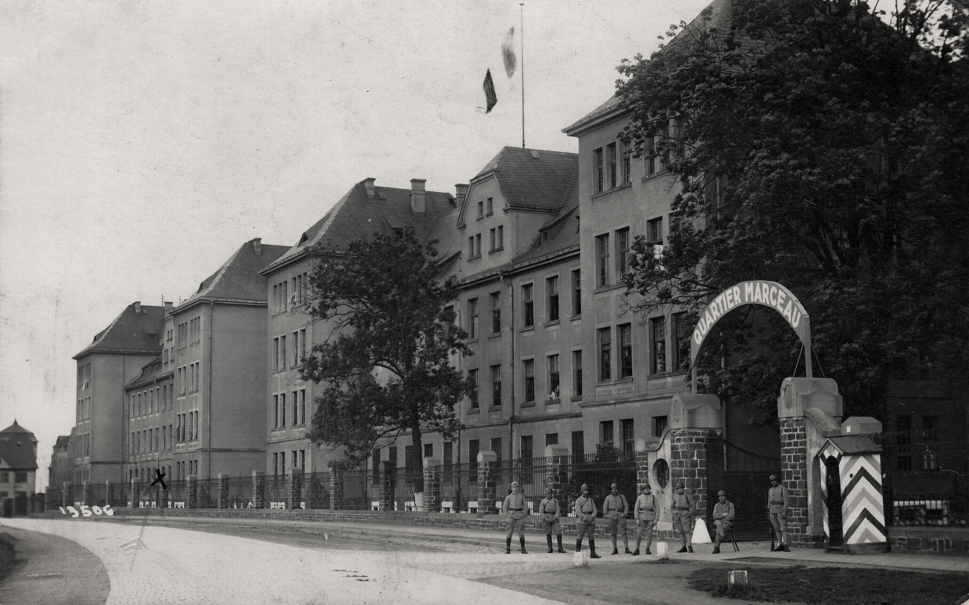 The Prussian Train barracks in Koblenz-Lützel, named Quartier Marceau during the French occupation of the Rhineland, 1923